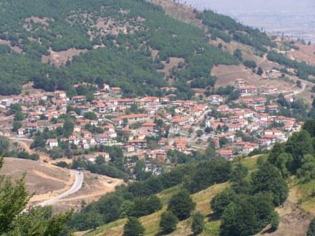 Taken in Greece Aug 26, 2006